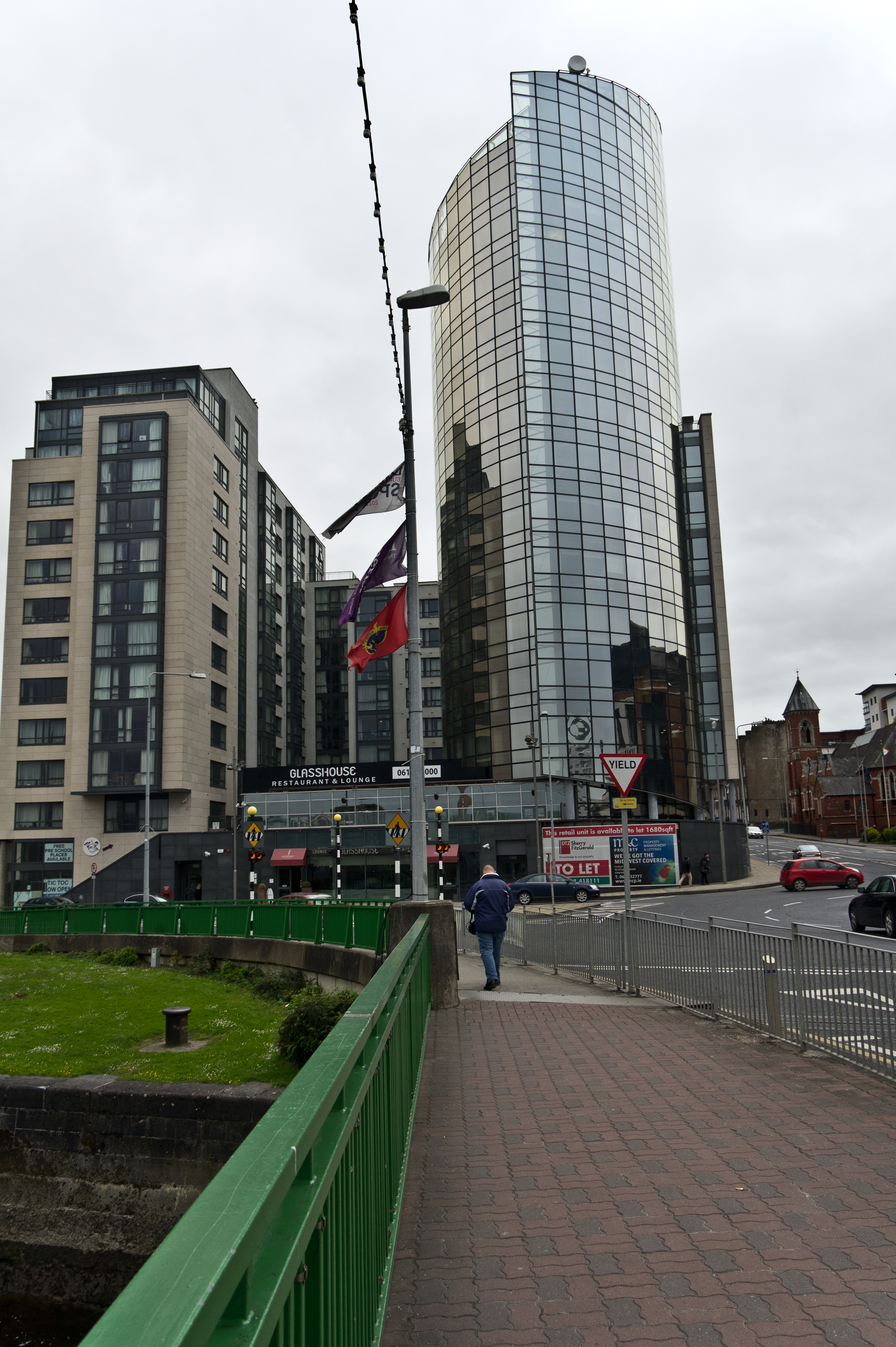 A view of the Riverpoint complex from Shannon Bridge